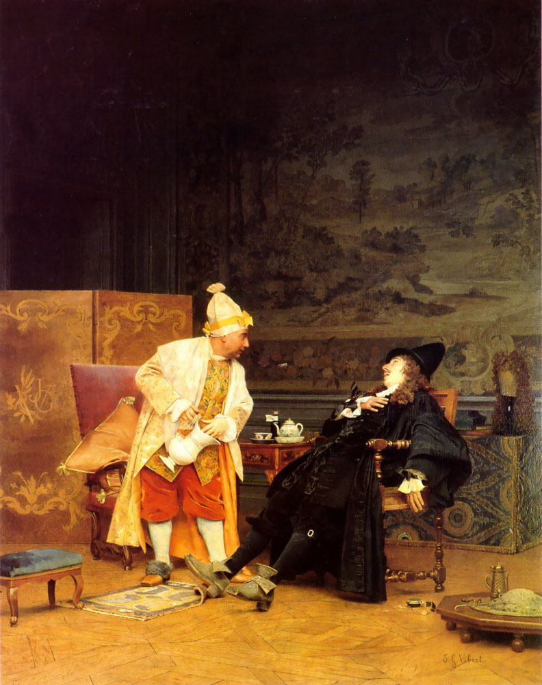 The_Sick_Doctor